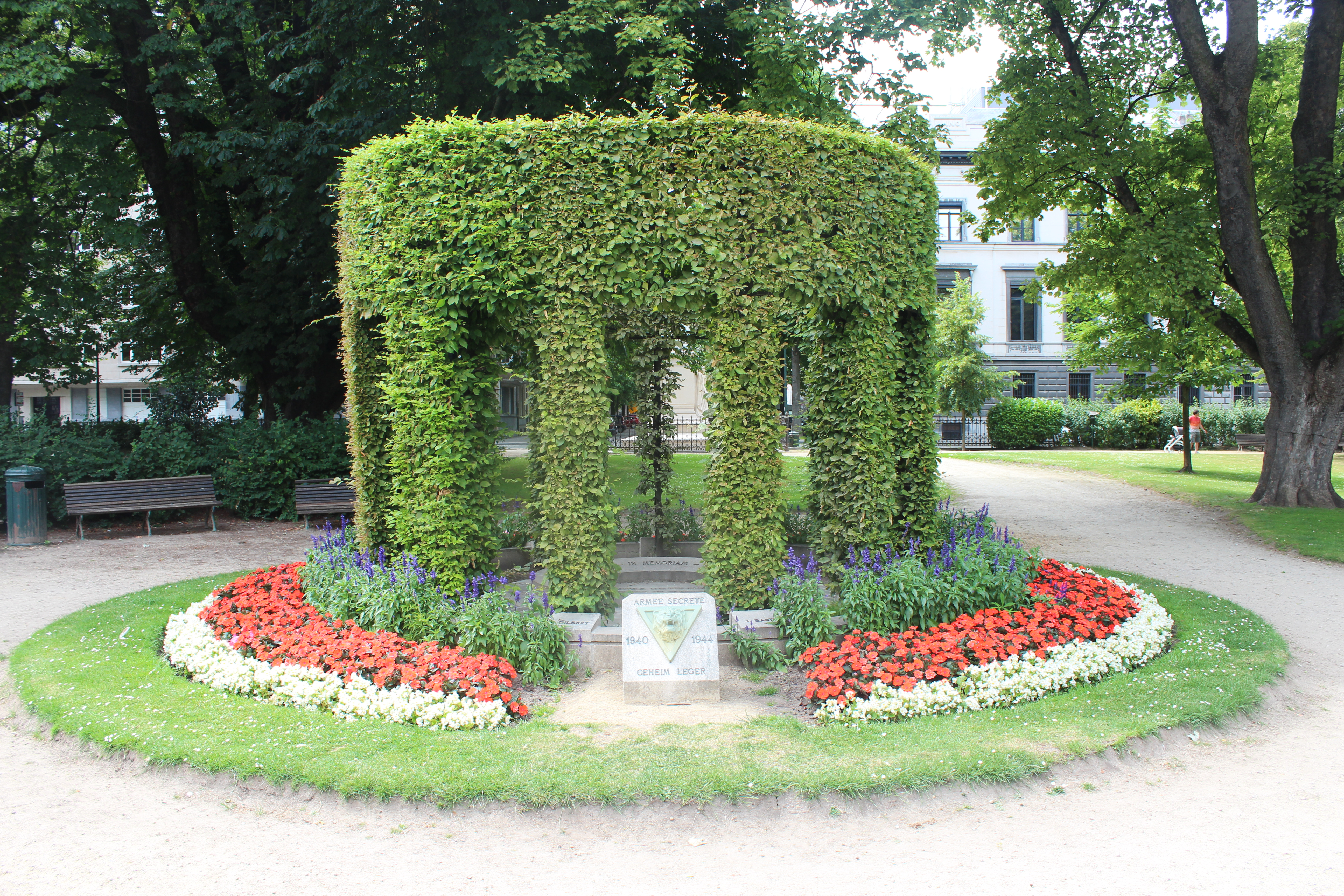 Monument Armée Secrète / Geheim Leger 1940-1944, Square Frère-Orban, Brussels.